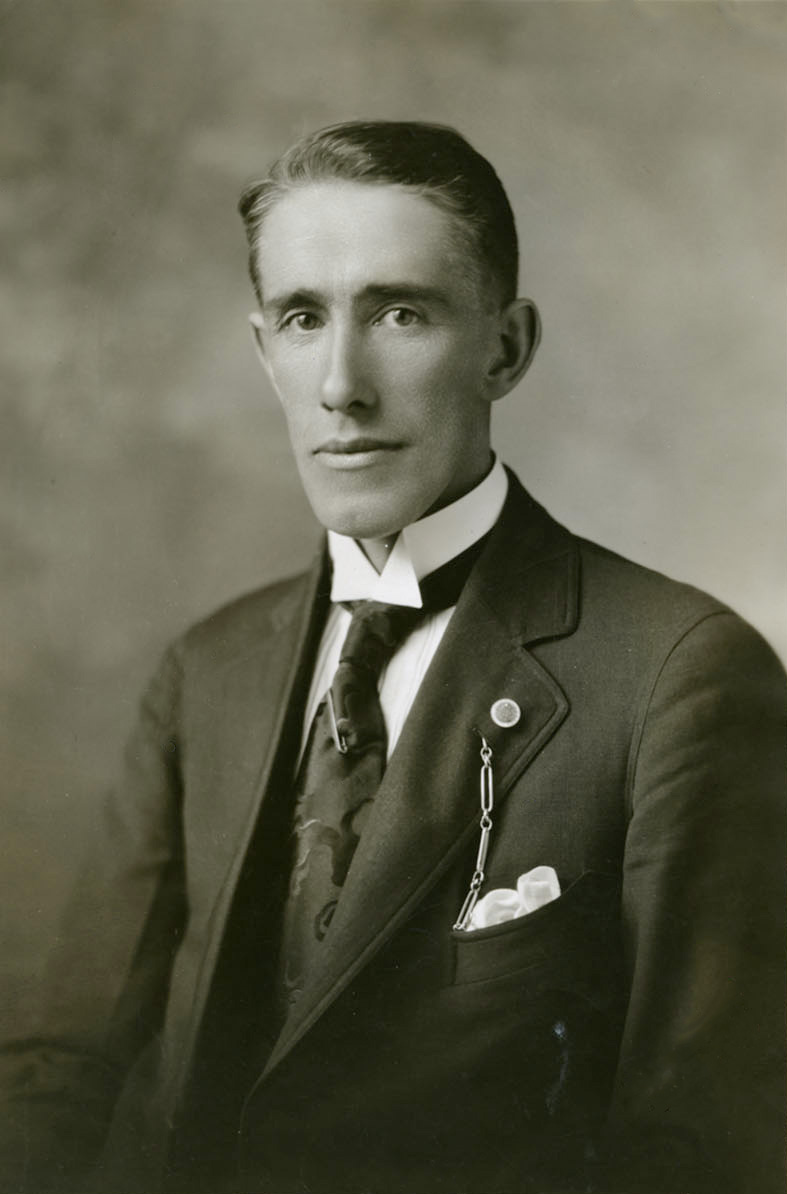 Curlette, Calgary A portrait of UFA federal candidate Edward Garland. Mr. Garland was an executive member of the United Farmers of Alberta (UFA), 1919-1921, and was elected in 1921 as Member of Parliament for the Bow River constituency as a Progressive Party candidate, and again in 1925. In 1926 he won the seat again again, this time as a United Farmers of Alberta candidate. He was re-elected in 1930, but lost his seat in the 1935 election. Garland served as President of the United Farmers of Alberta in the early 1930s. In 1935 he was appointed Secretary to the High Commissioner of Canada in Dublin; Acting High Commissioner for Canada to Ireland in 1946; Charges d'Affaires for Canada to Denmark; ambassador to Norway in 1947; and ambassador to Iceland in 1949. Source of title: inscription on reverse To see more historic UFA materials, visit the United Farmers Historical Society at .